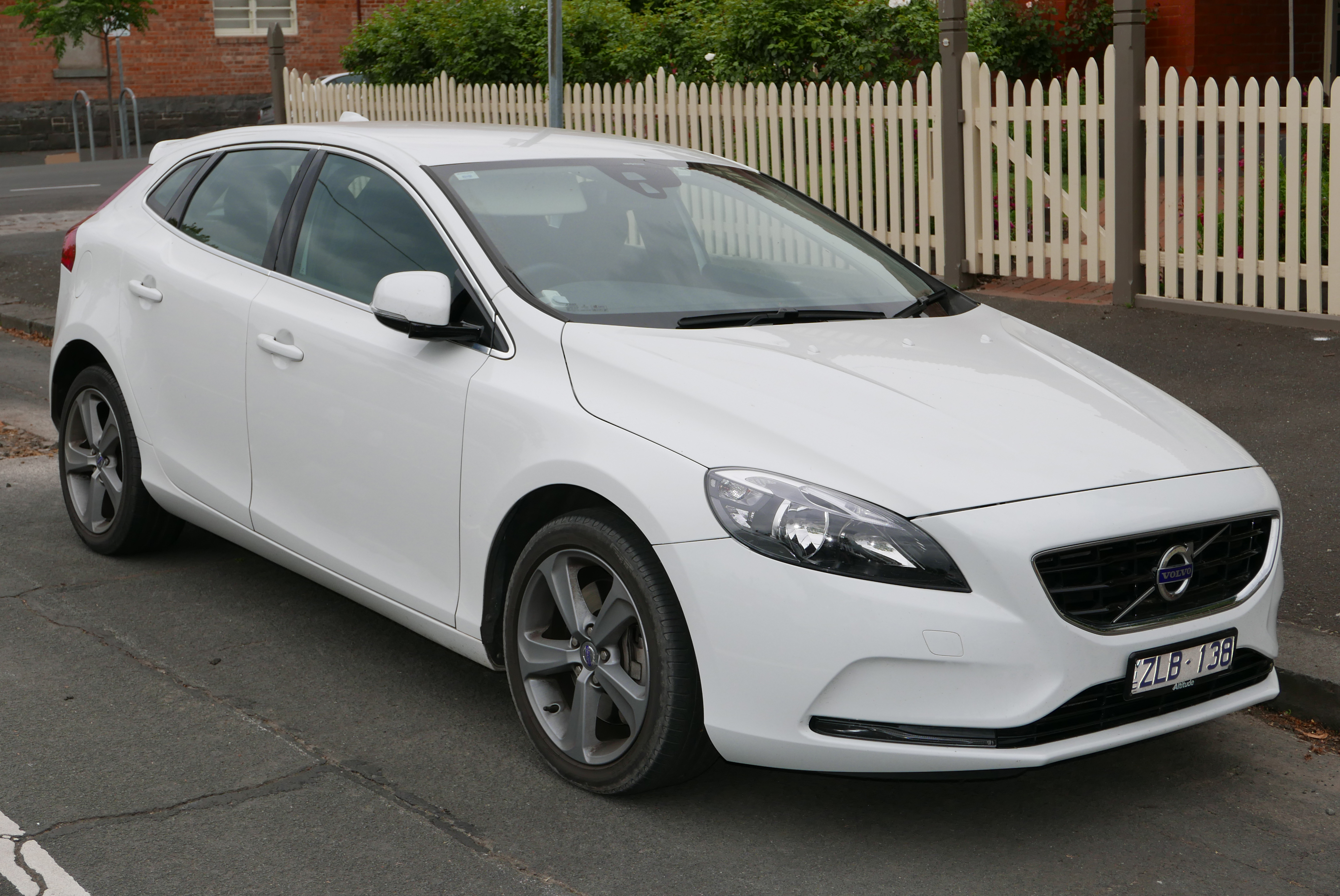 2013 Volvo V40 (MY13) T4 Kinetic hatchback. Photographed in Princes Hill, Victoria, Australia. Vehicle registration enquiry resultsJurisdictionVictoriaRegistrationZLB138Chassis codeYV1MV4250D2025827Engine code4611931Compliance date2013-02Year of manufacture2013